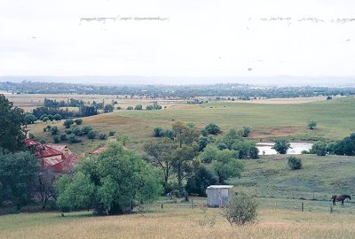 Orielton, Harrington Park: View from northern ridge looking south west to Homestead Precinct and dam.